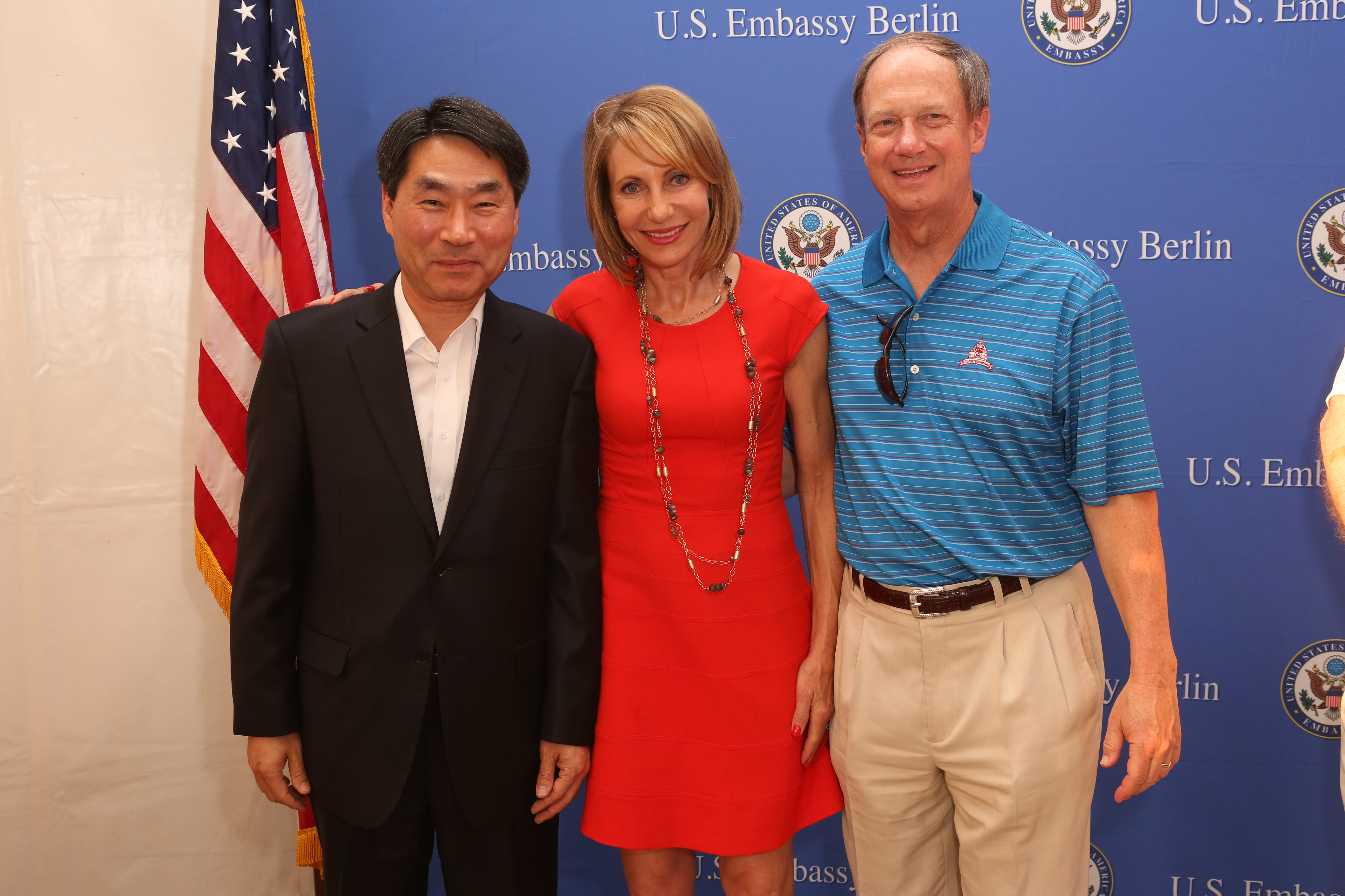 L to R: Kim Jae-shin, Kimberly Emerson, and John B. Emerson, 4th of July 2014 at Berlin-Tempelhof